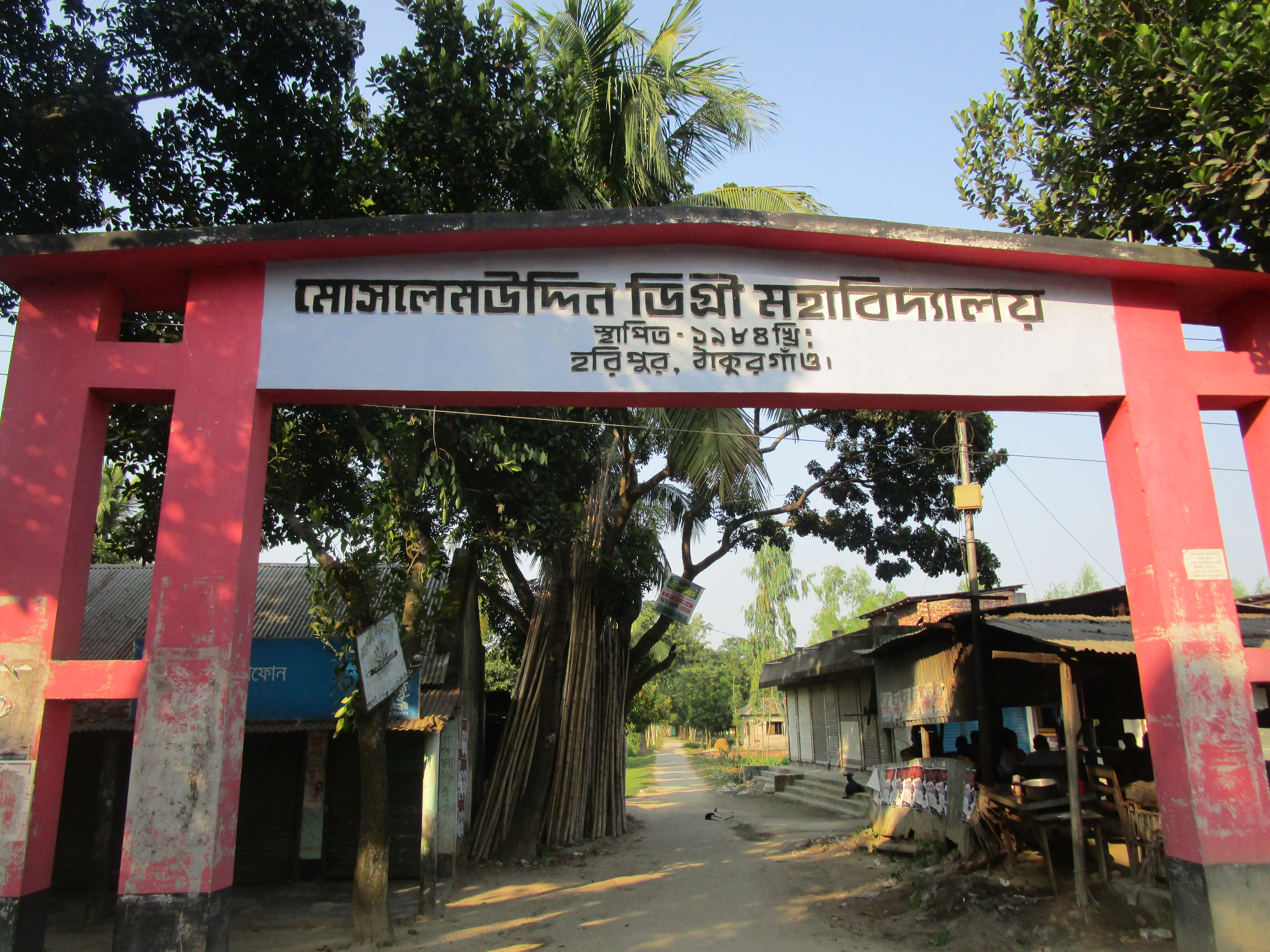 Moslemuddin College at Haripur Upazila.